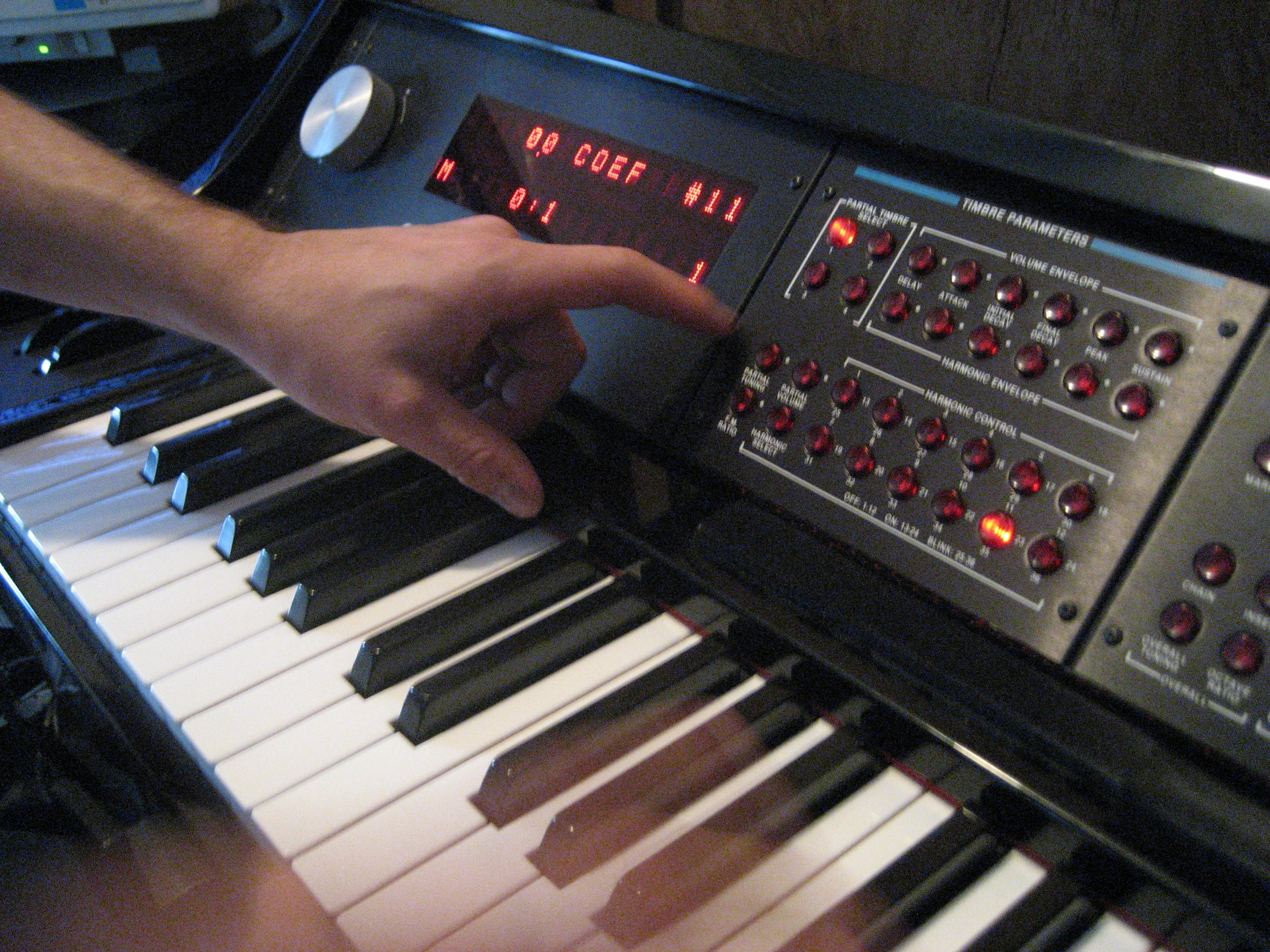 Synclavier VPK - front panel and keyboard (post-repair)